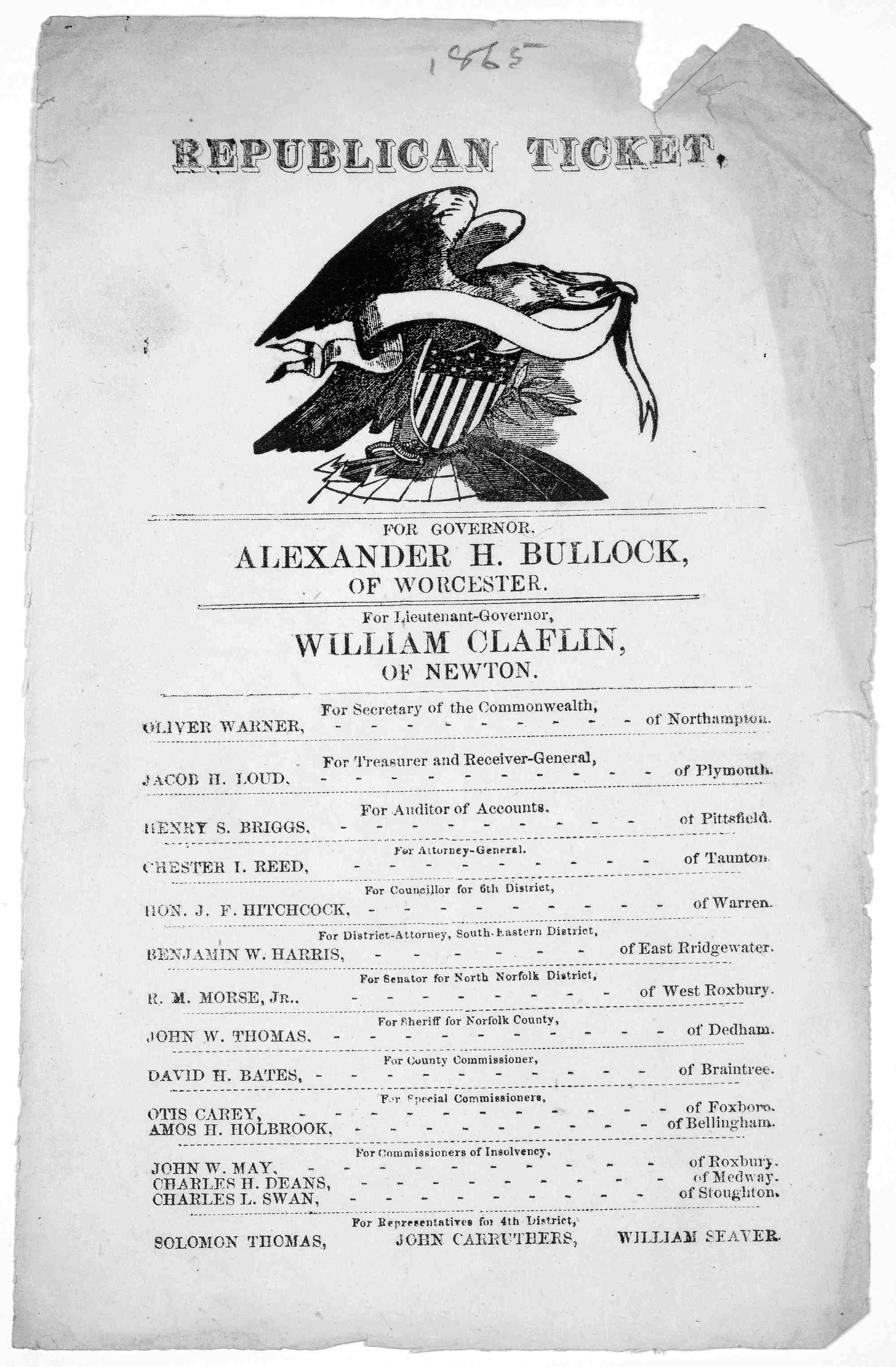 Republican election ticket from 1865, for candidate Alexander H. Bullock (who ran against Darius N. Couch and won).